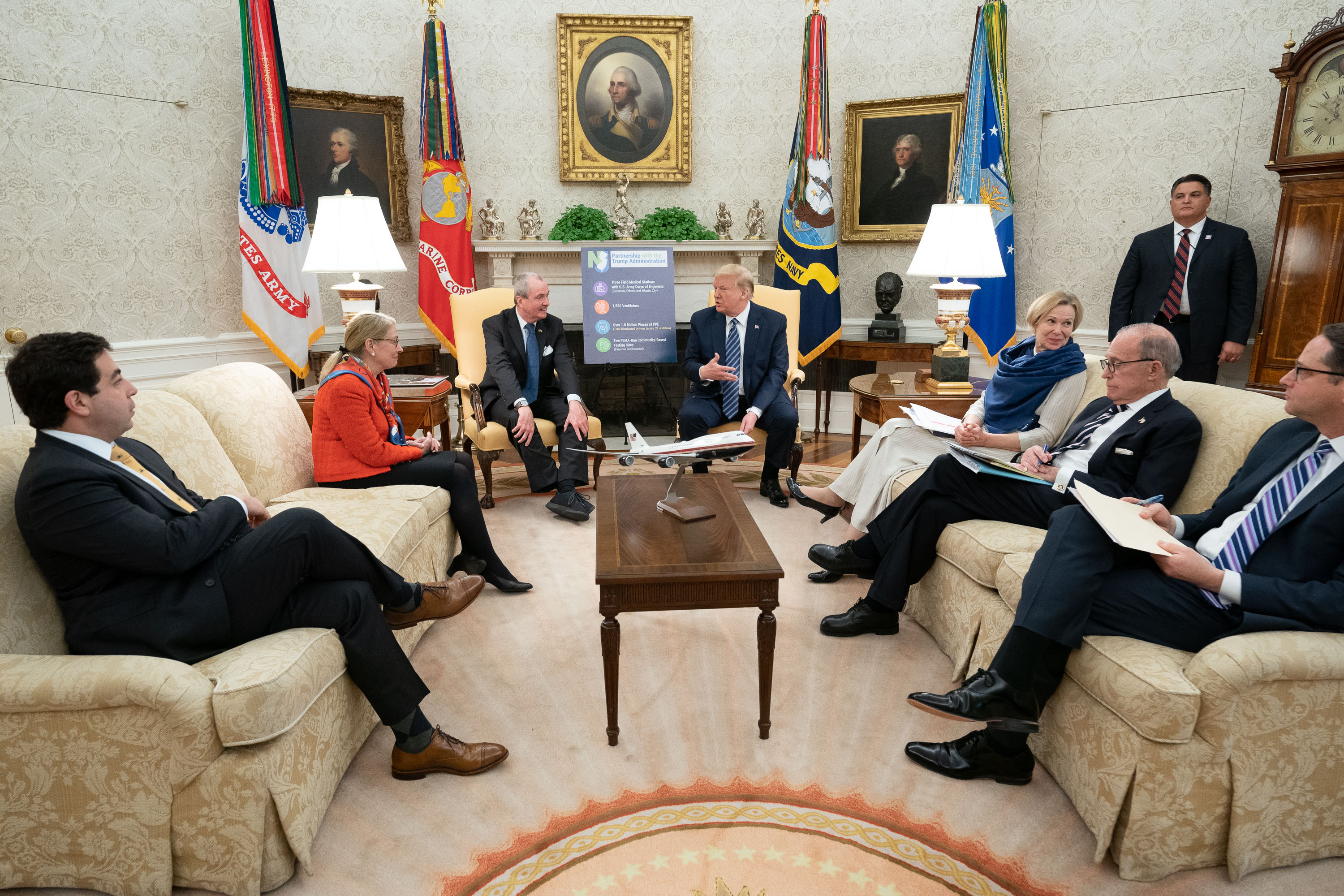 President Donald J. Trump meets with New Jersey Gov. Phil Murphy Thursday, April 30, 2020, in the Oval Office of the White House.(Official White House Photo by Joyce Boghosian)